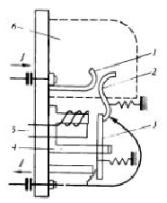 Միաբևեռ էլեկտրամագնիսական կոնտակտորի սխեմա